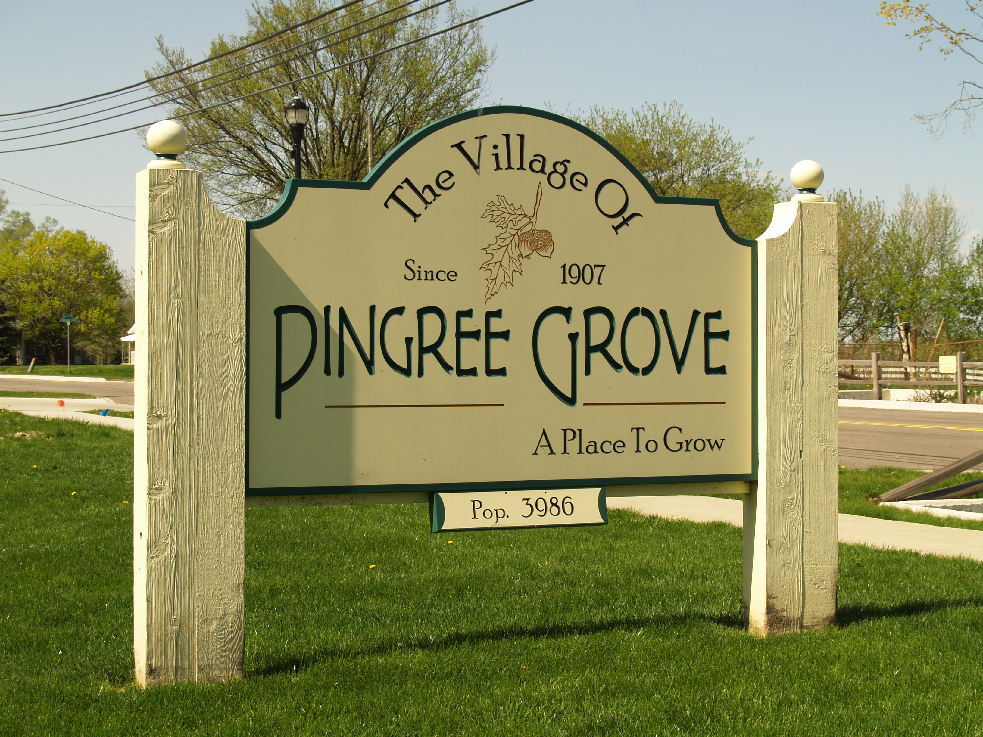 Pingree Grove, IL village sign visible from Reinking Rd